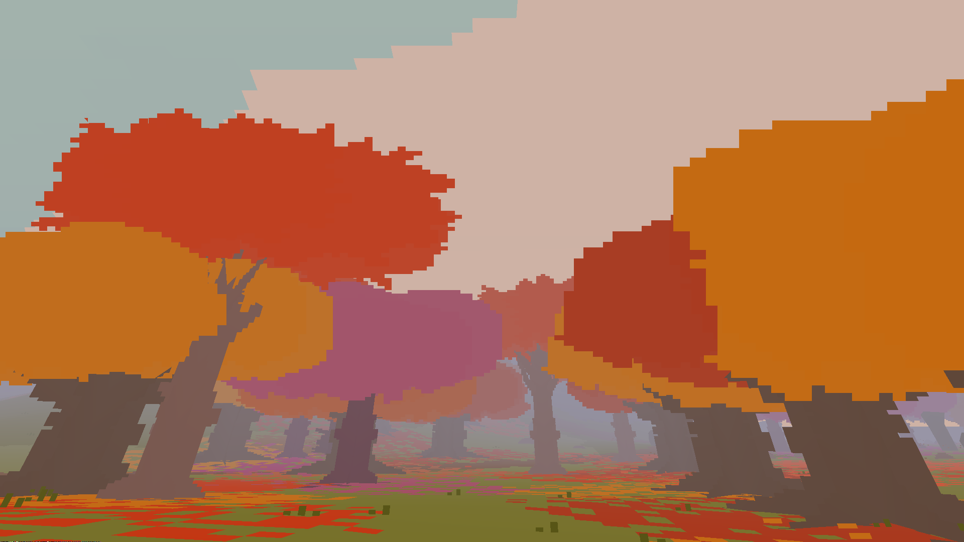 Autumn season in video game Proteus.